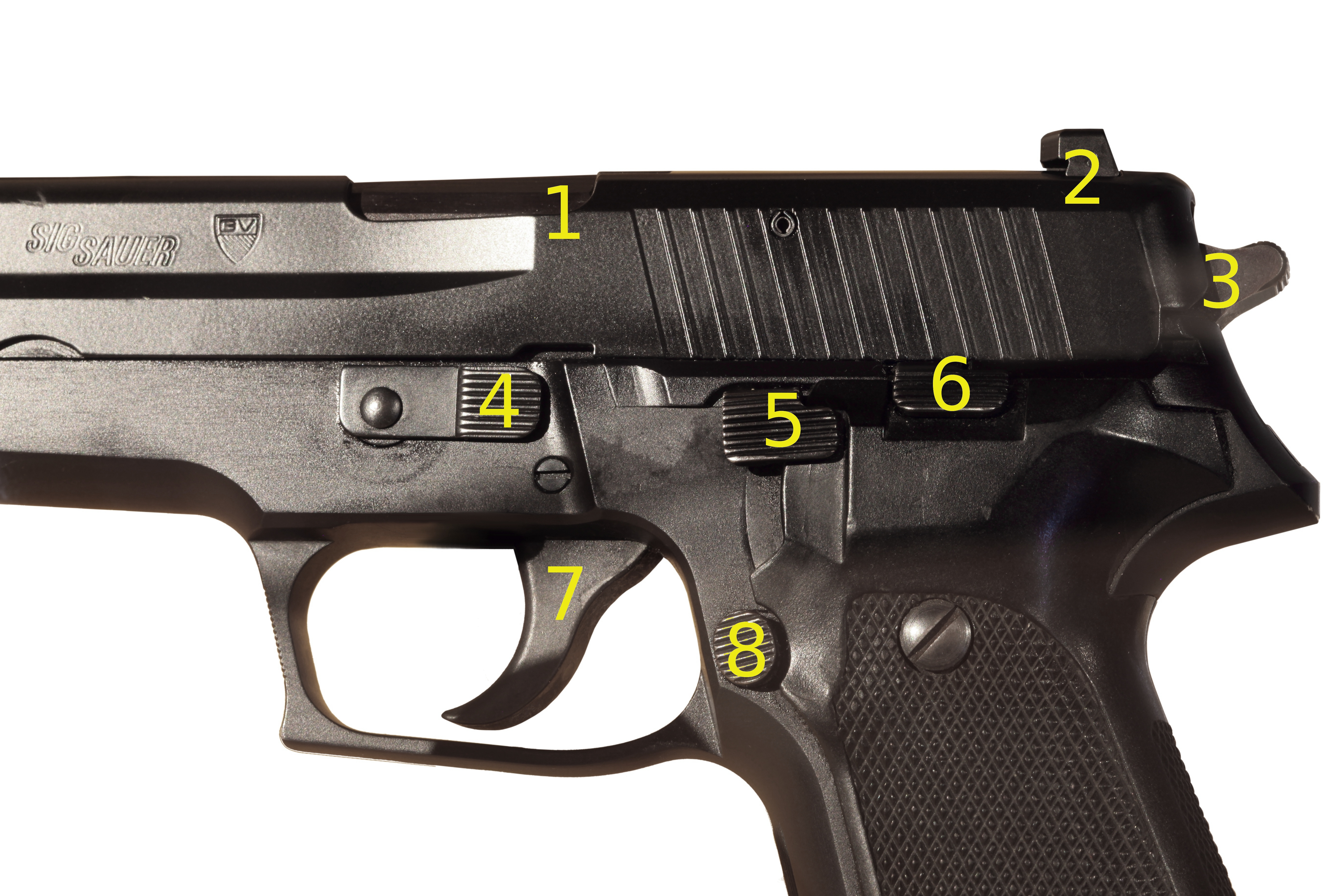 SIG P226. On display at Morges military museum.